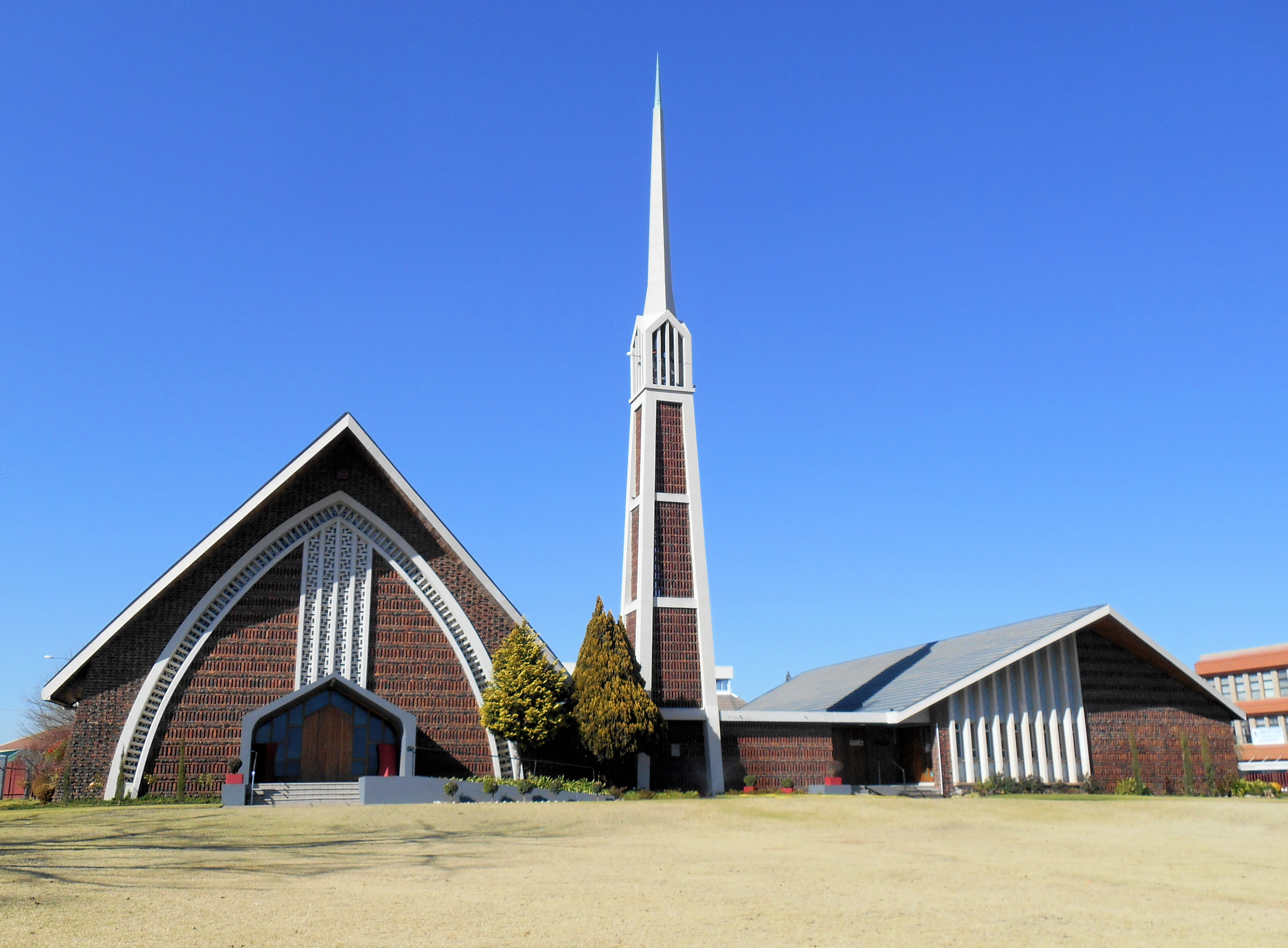 Dutch Reformed Church in Harrismith, corner of Piet Retief and Wardenstreet